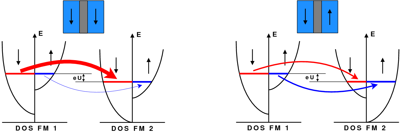 Sketch of the tunnel current for TMR (tunnel magnetoresistance)